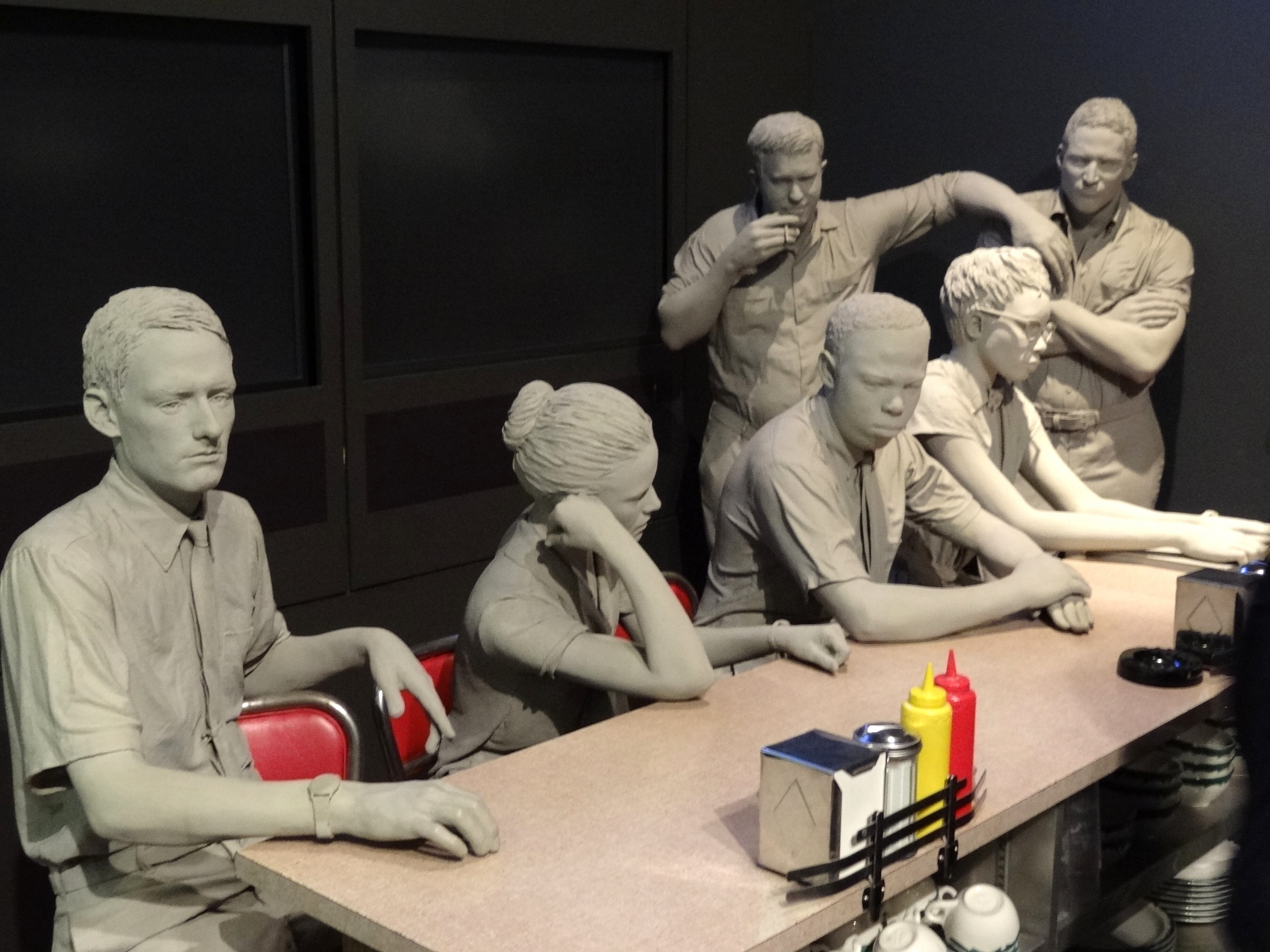 Diorama of Lunch Counter Sit-Down Protests - National Civil Rights Museum - Downtown Memphis - Tennessee - USA - 01